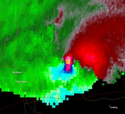 This is a strong mesocyclone doublet of velocities viewed on a NEXRAD radar. It was associated with the Tuscaloosa tornado on April 27, 2011. The intensity of the circulation, and its vertical continuity, corresponded to the characteristics of a Tornado Vortex Signature.